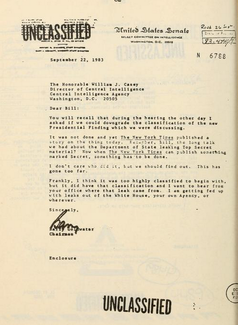 Memo from Senator Barry Goldwater to Director of Central Intelligence (CIA) William J. Casey in 1983, complaining about leaking of classified documents to the New York Times. Text: Dear Bill: You will recall that during the hearing the other day I asked if we could downgrade the classification of the new Presidential Finding which we were discussing. It was not done and yet The New York Times published a story on the thing today. Remember, Bill, the long talk we had about the Department of State leaking Top Secret material? Now when The New York Times can publish something marked Secret, something has to be done. I don't care who did it, but we should find out. This has gone too far. Frankly, I think it was too highly classified to begin with, but it did have that classification and I want to hear from your office where that leak came from. I am getting fed up with leaks out of the White House, your own Agency, or wherever. From: Report of the congressional committees investigating the Iran-Contra Affair with supplemental, minority, and additional views. Published 1987 by U.S. House of Representatives Select Committee to Investigate Covert Arms Transactions with Iran, U.S. Senate Select Committee on Secret Military Assistance to Iran and the Nicaraguan Opposition, For sale by the Supt. of Docs., U.S. G.P.O. in Washington .